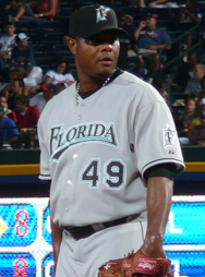 I took this photo on June 5, 2007 04:41, 8 June 2007 . . Chrisjnelson . . 188×254 (101,822 bytes)